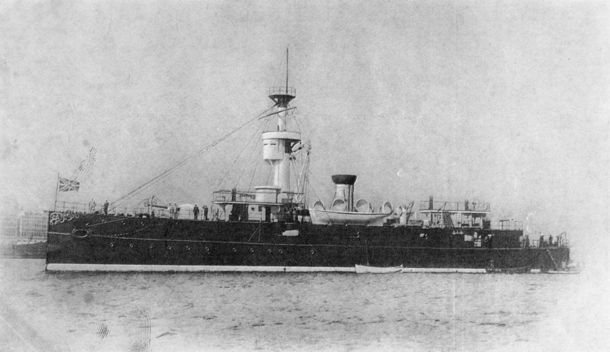 Imperial Russian gunboat Gilyak (I).